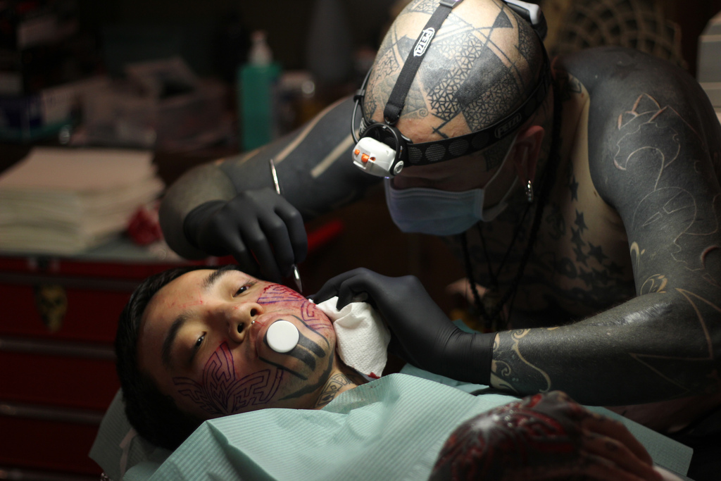 Scarification by Iestyn Flye